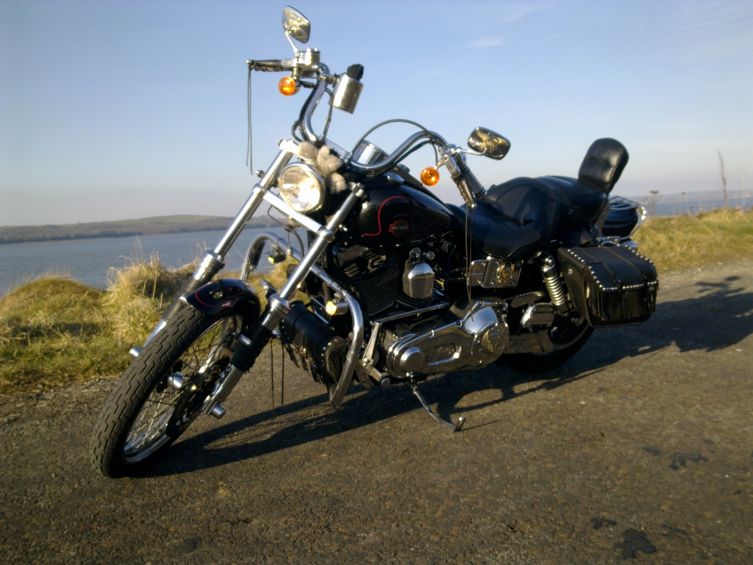 This is a 2002 Harley Davidson Wideglide so called due to the extra wide front forks on this model compared to other bikes an effect which is accentuated by the relatively narrow front wheel.